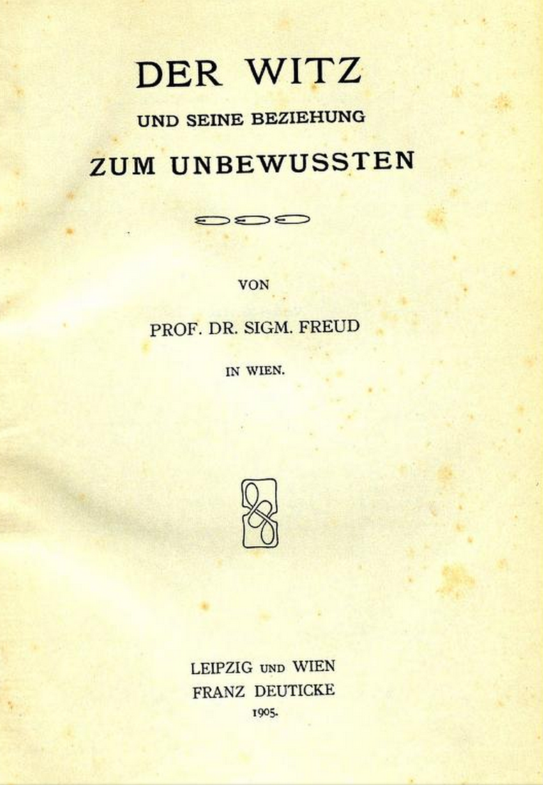 Frontpage of the original edition of Sigmund Freud's "Der Witz und seine Beziehung zum Unbewussten", Franz Deuticke, Leipzig und Wien